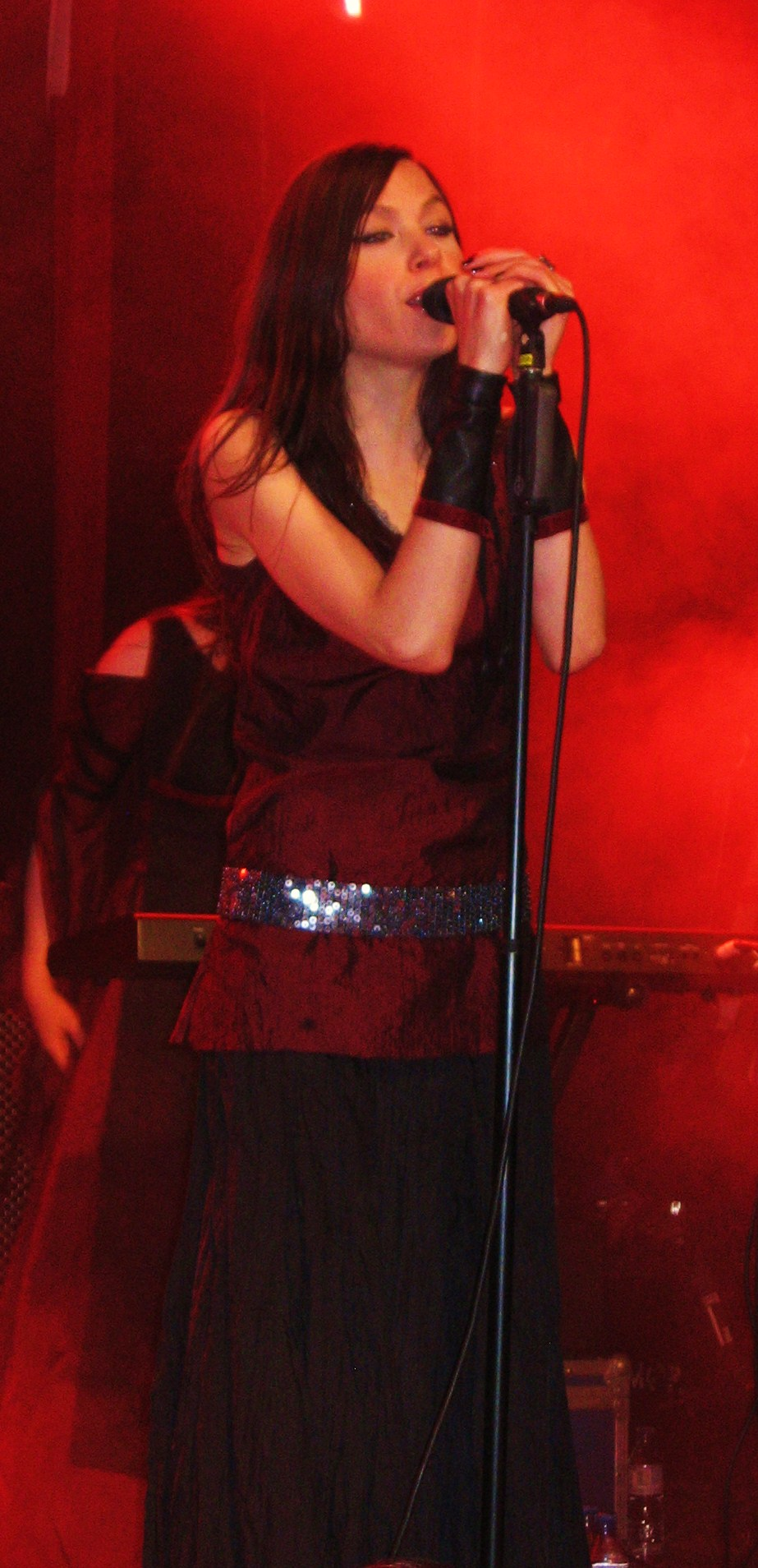 Kaisa Jouhki of Battlelore at Nosturi, Helsinki